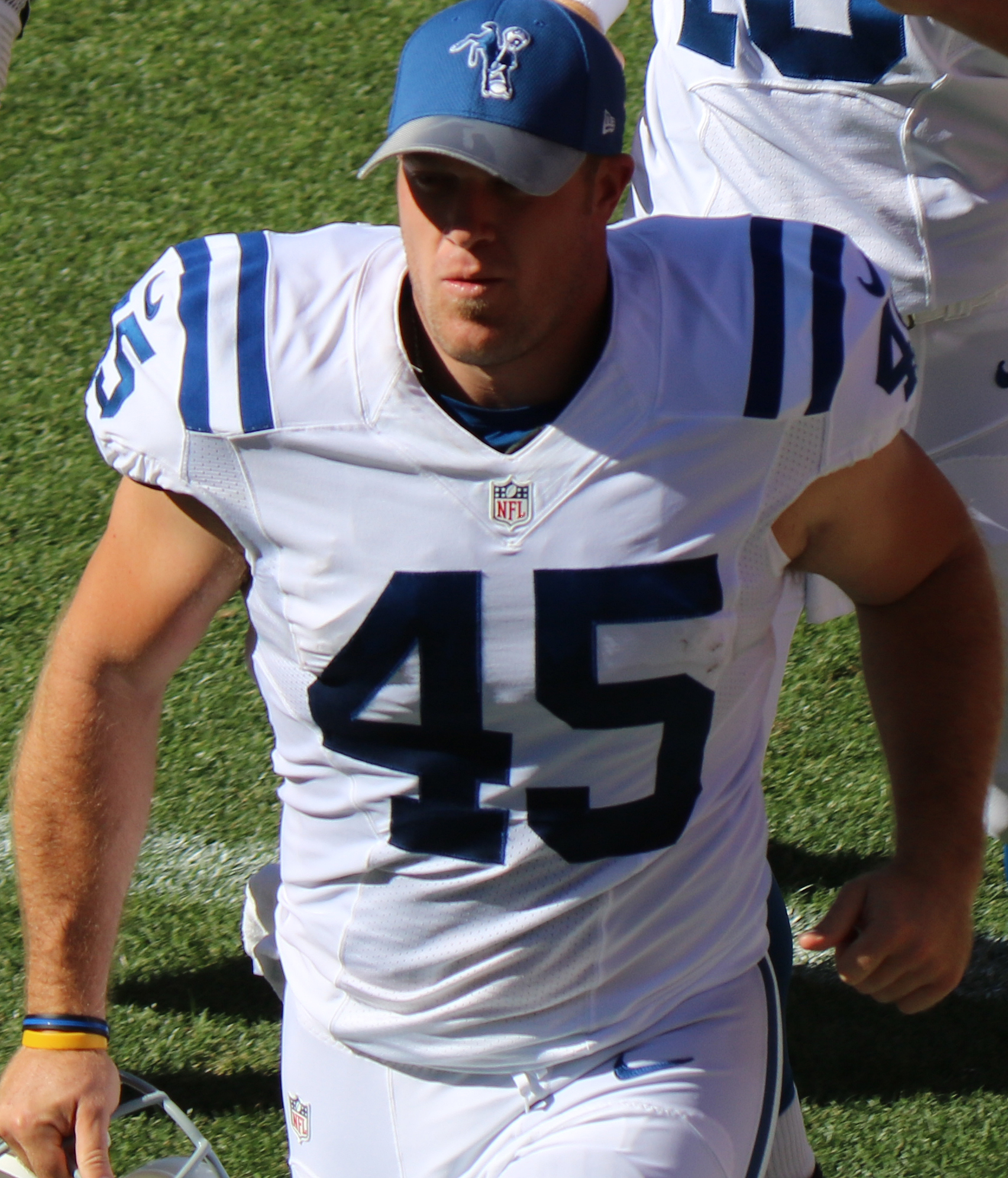 Matt Overton, a player on the National Football League.